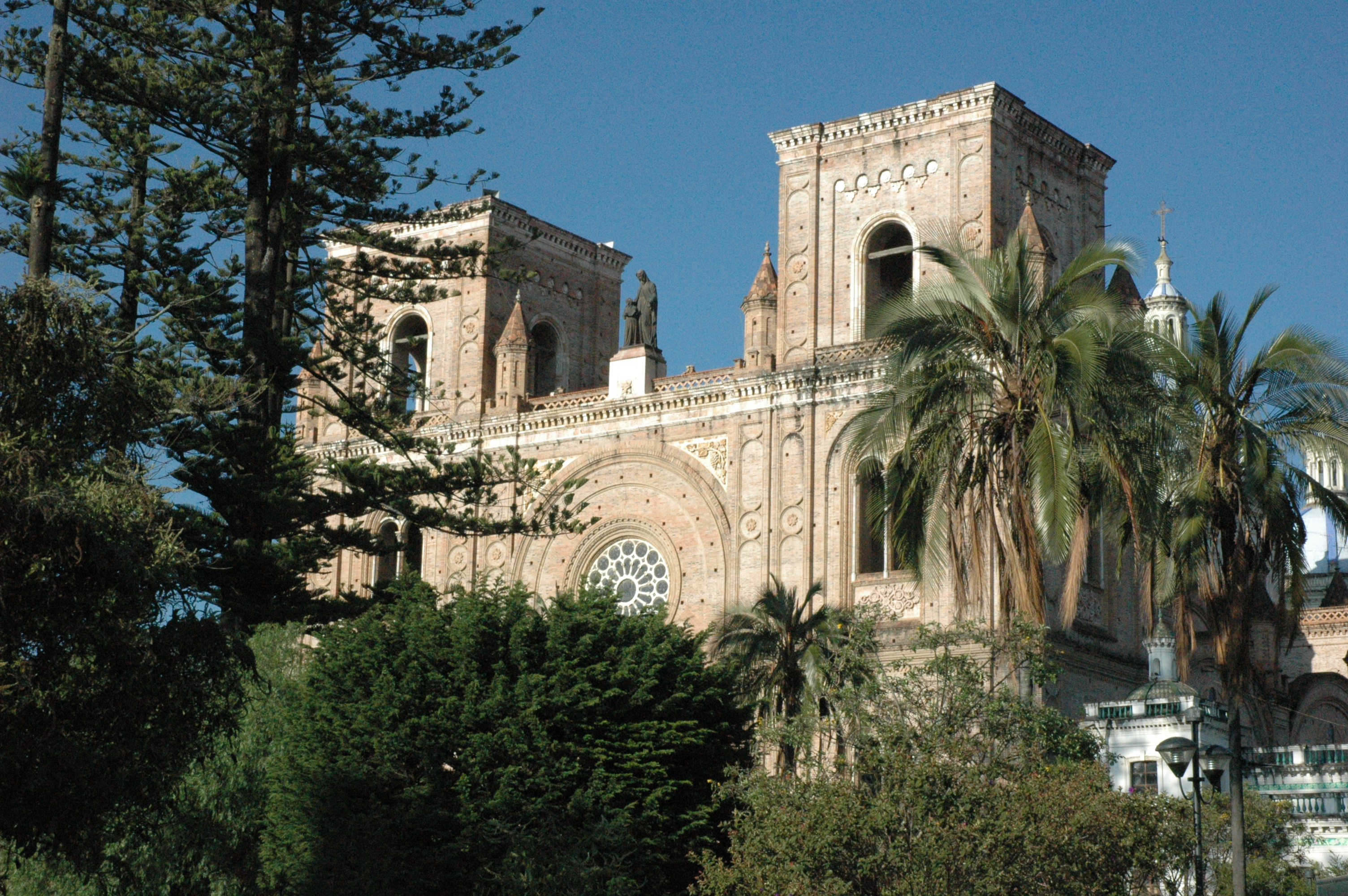 New Cathedral of Cuenca, Ecuador